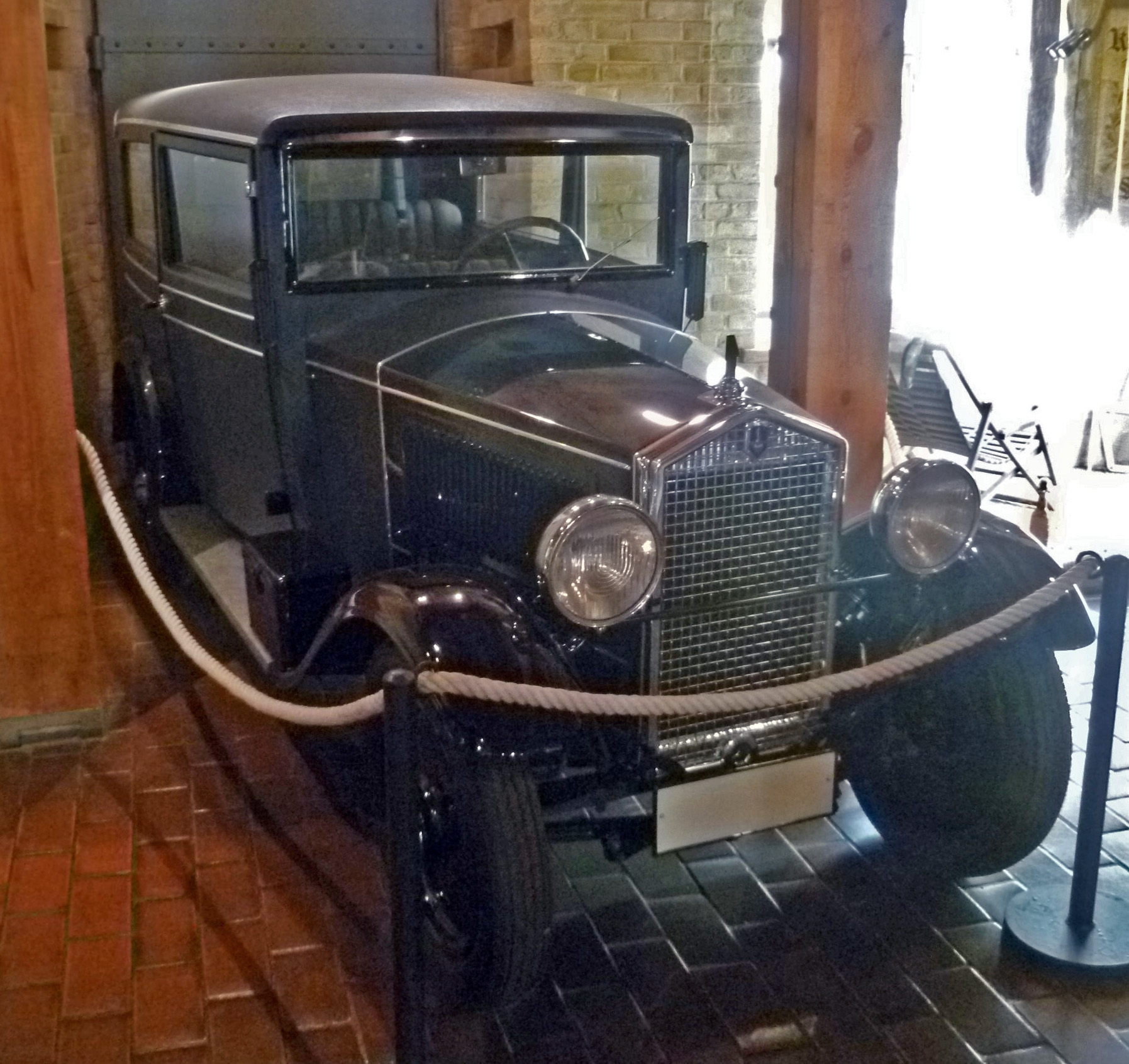 1931 Audi P 5/30 on exhibition in the Spandau citadel, Spandau, Germany. This was a Peugeot-engined, badge engineered DKW 4=8 built in DKW's Spandau works.